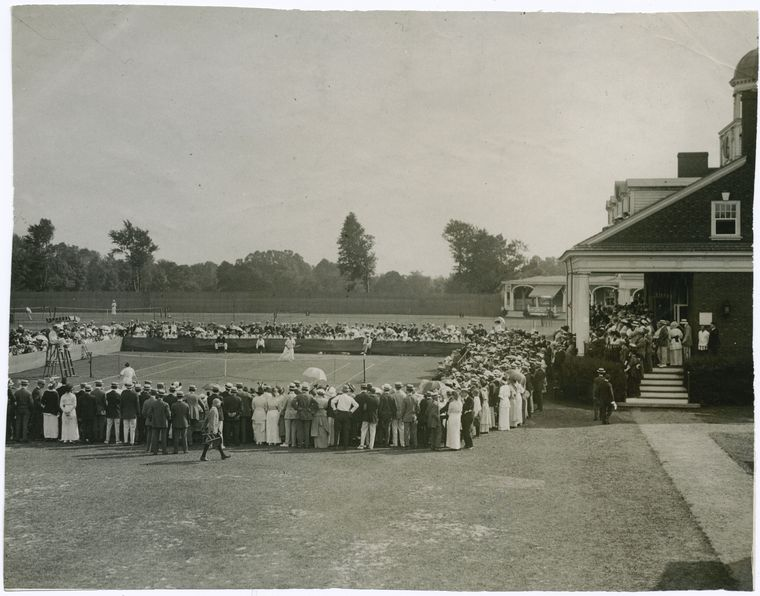 Thompson, Paul , fl. 190--192- -- Photographer National Women's Tennis Tournament at the Cricket Club, St. Martins, Philadelphia Public domain image